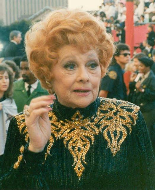 Lucille Ball at her last public appearance, at the 61st Academy Awards NOTE: Permission granted to copy, publish, broadcast or post any of my photos, but please credit "photo by Alan Light"